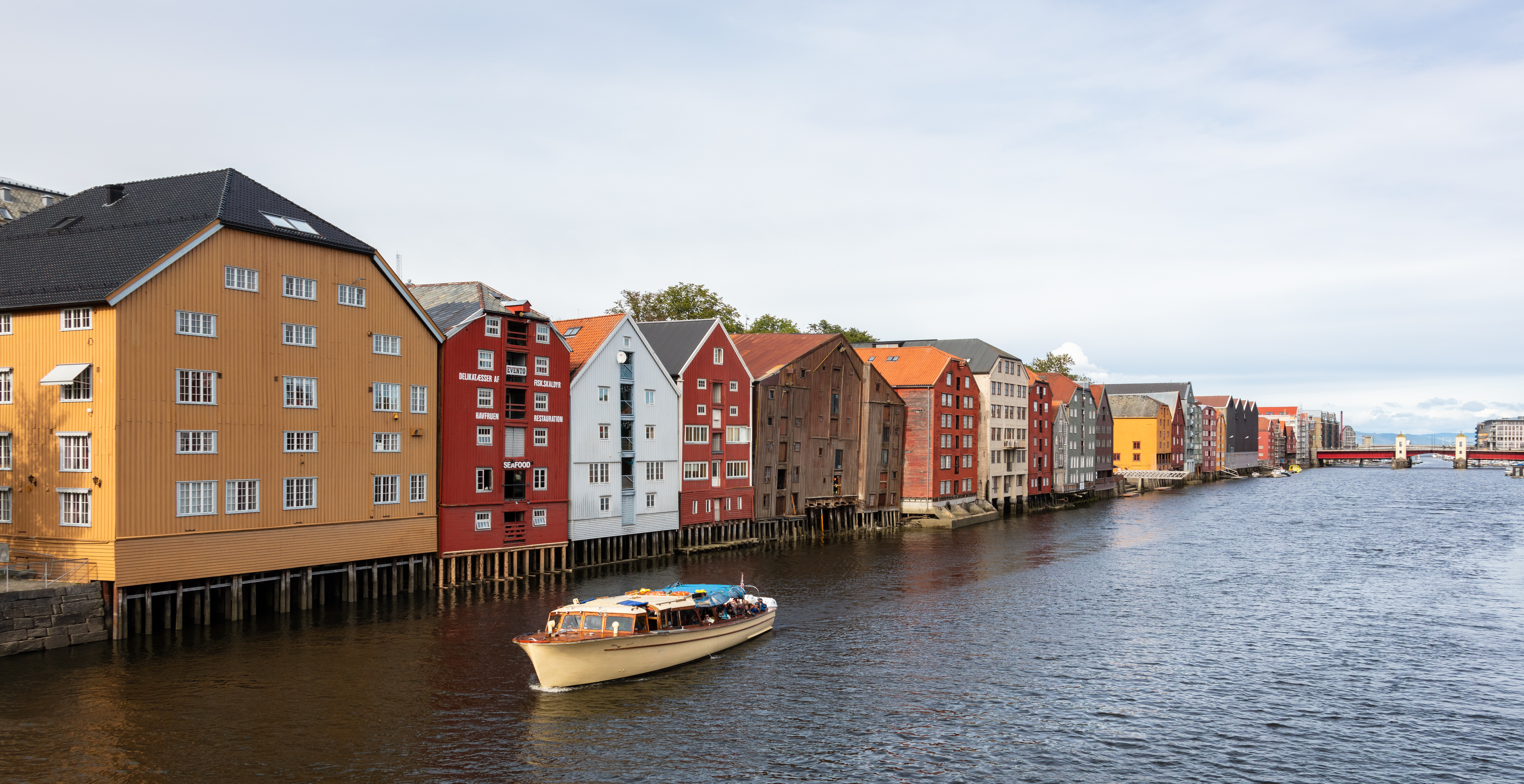 Bakklandet, Trondheim, Norway